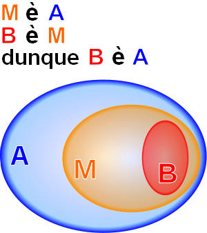 Syllogism pattern